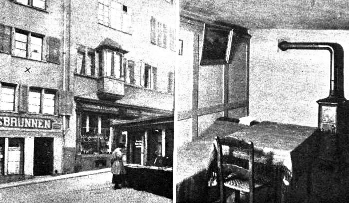 Photograph of the house and room in which Vladimir Lenin stayed while in Zurich, Switzerland.